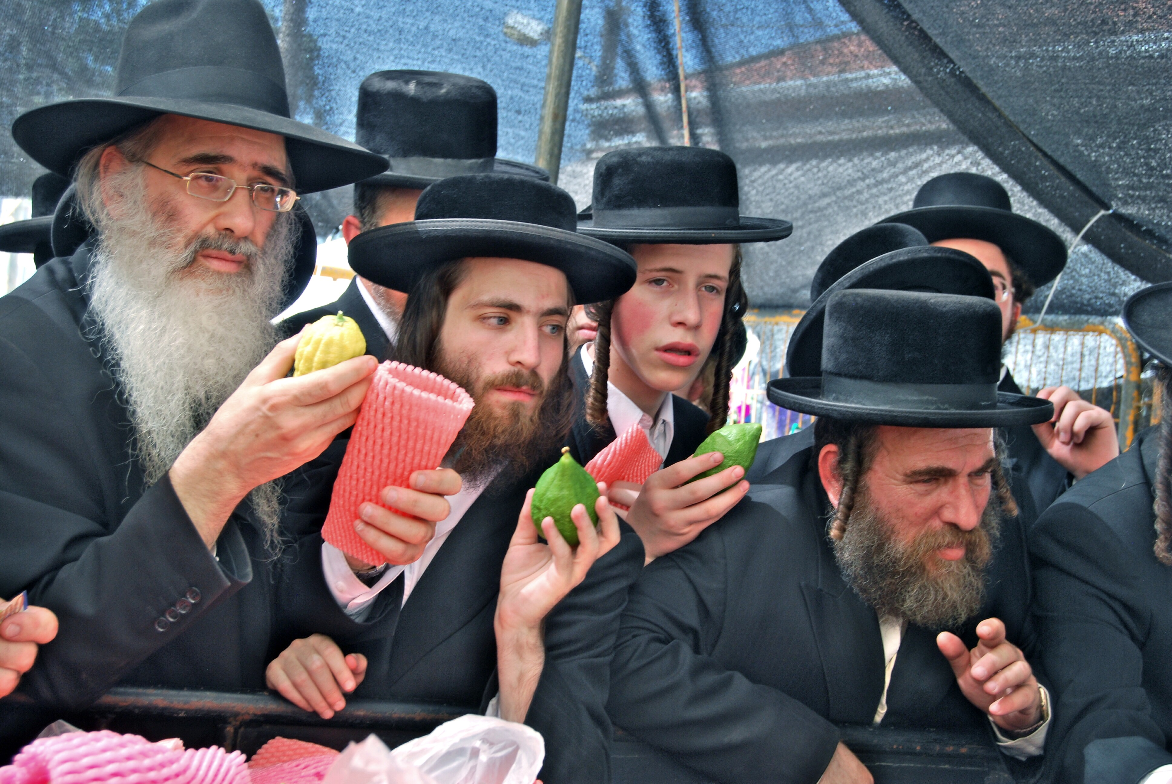 Jerusalem's Four Species market